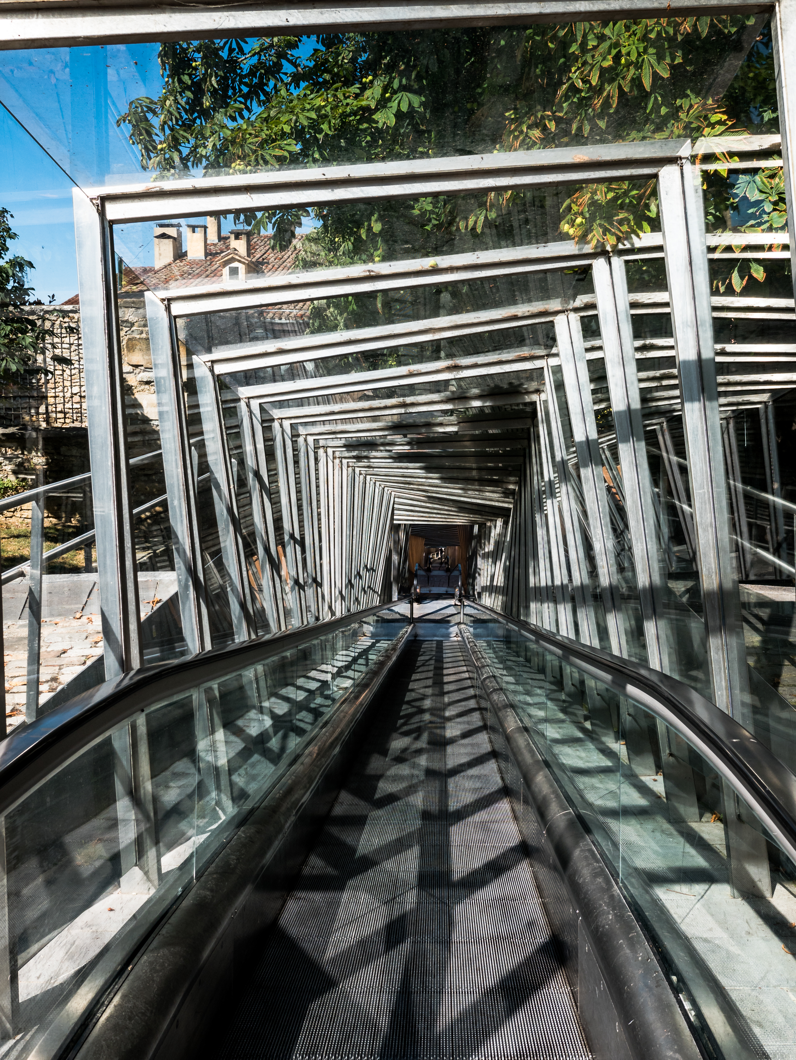 Escalator at Cantón de la Soledad Street in the Old Town. Vitoria-Gasteiz, Basque Country, Spain